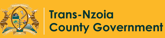 Tranz-Nzoia County Government logo